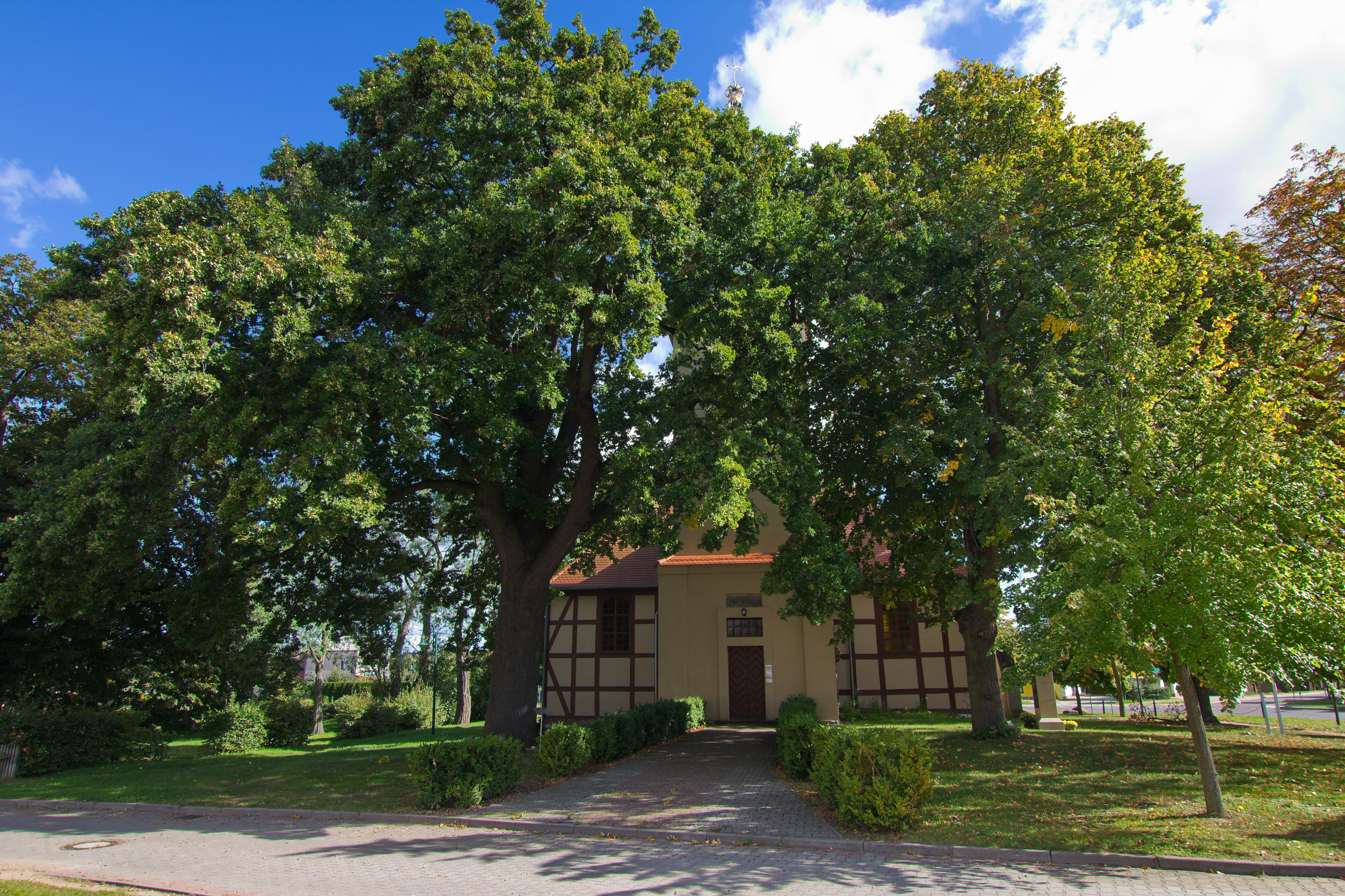 Friedenseiche von 1871 vor der Kirche zu Ferchland (Elbe-Parey), Sachsen-Anhalt, Deutschland